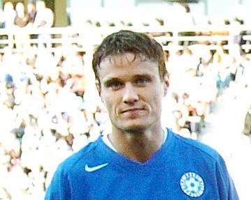 Andres Oper, Estonian football (soccer) player